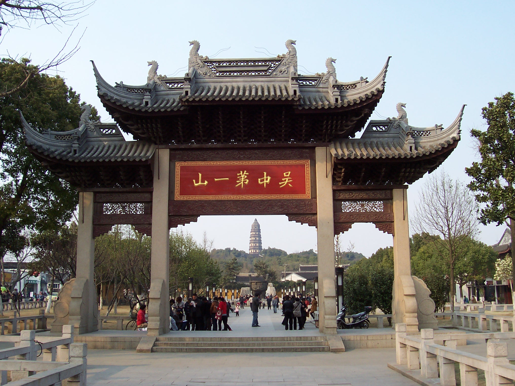 Tiger Hill Entrance, Suzhou